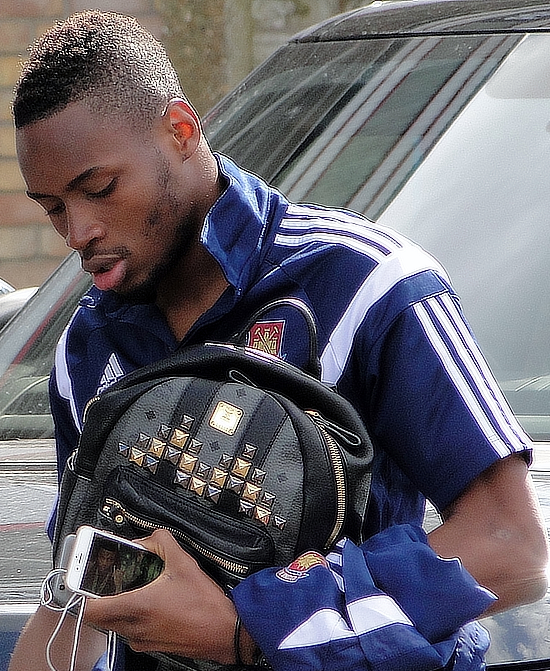 West Ham United striker, Diafra Sakho arriving at The Boleyn Ground before their game against Stoke City.